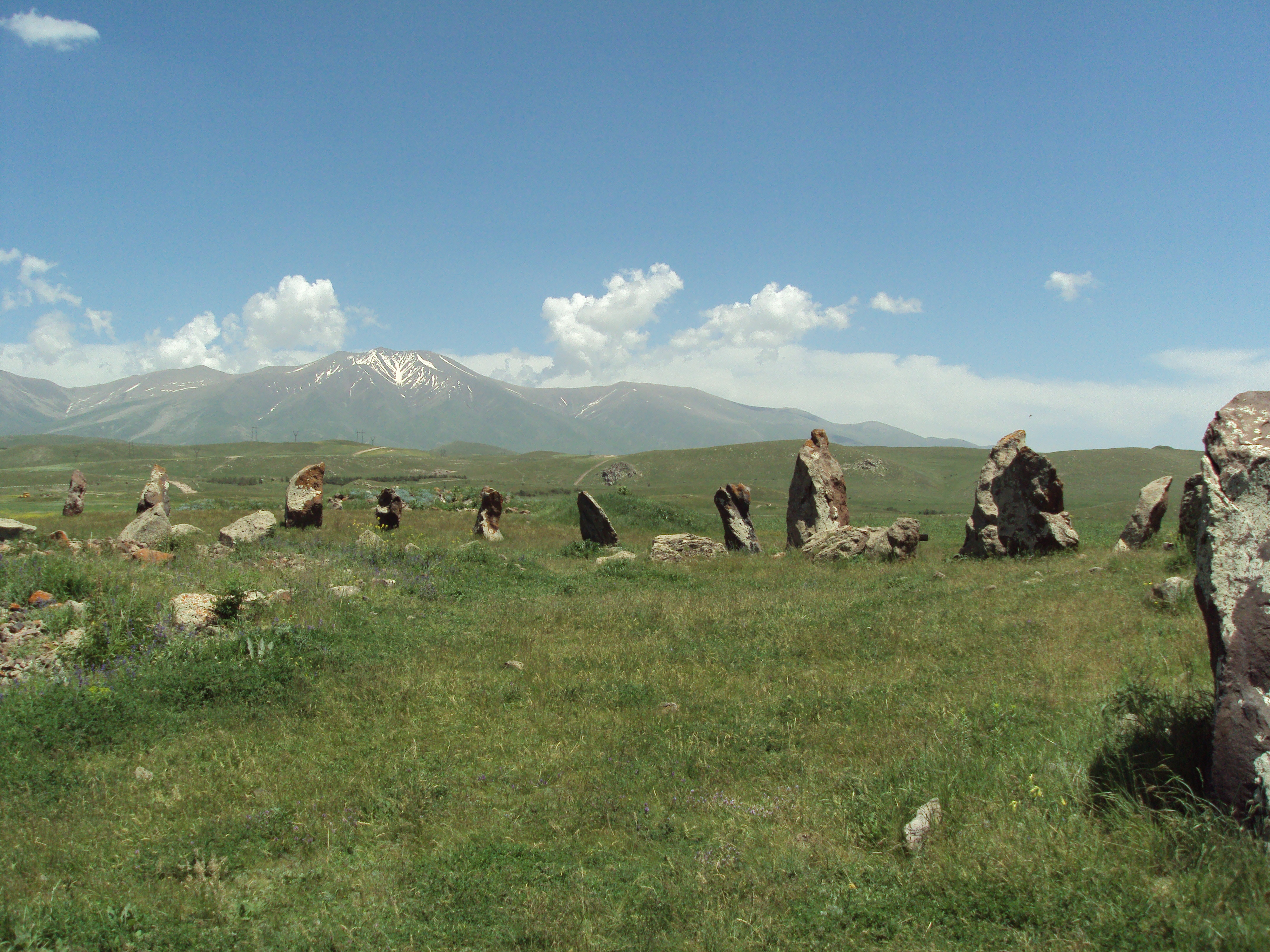 Settlement Zorats Karer, astronomical observatory Karahunj